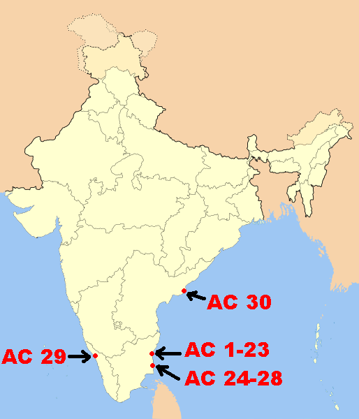 Map showing the distribution of the 30 assembly constituencies of Puducherry. Based on File:Lagekarte Unionsterritorium Puducherry.svg.png